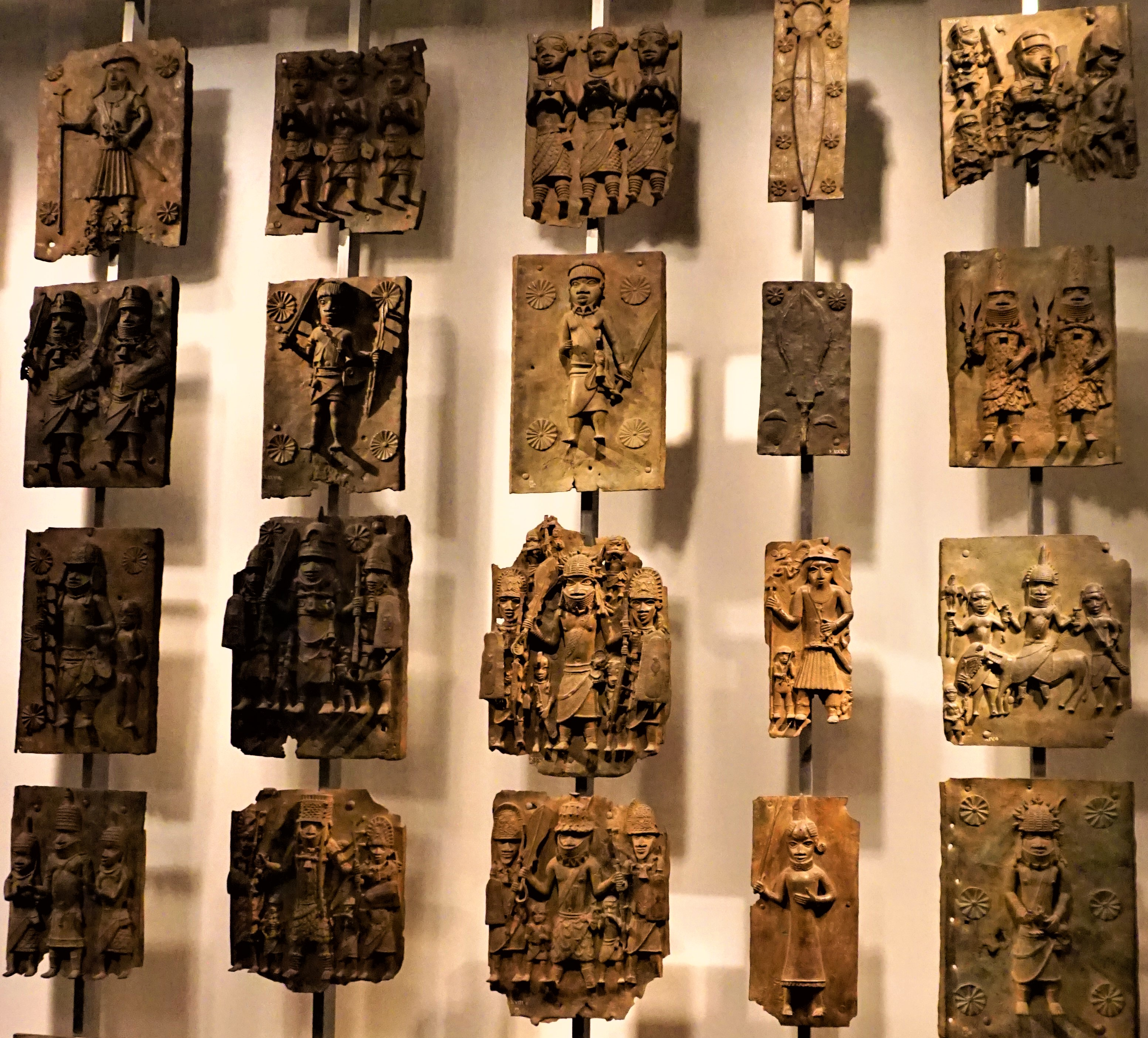 Benin Bronzes - British Museum - Joy of Museums - for details